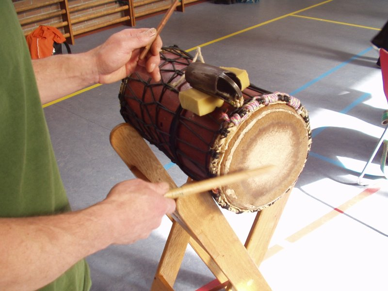 Kenkeni, a small west african drum